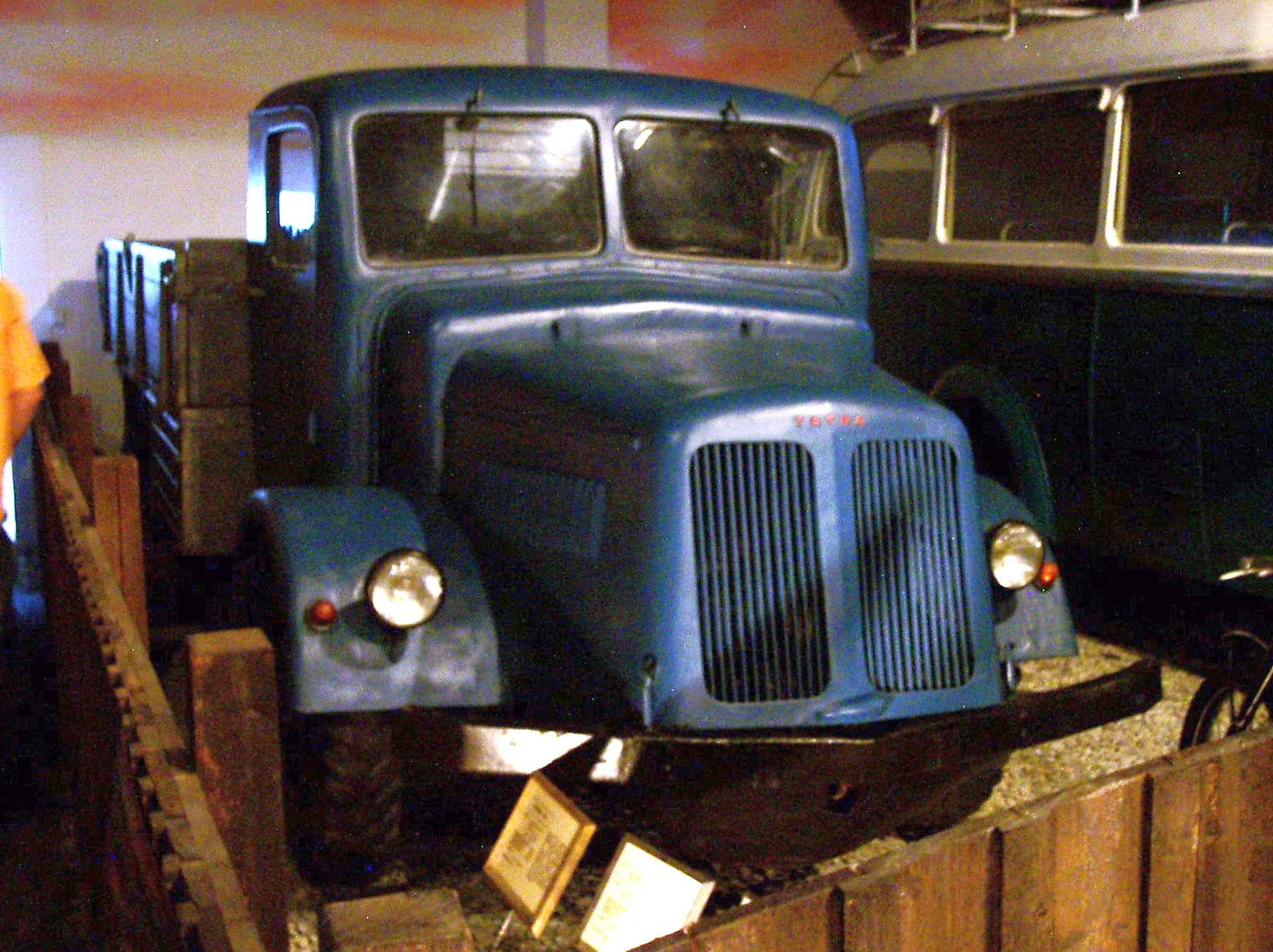 The Tatra 114 truck as the stable part of the exhibition in Lešany museum